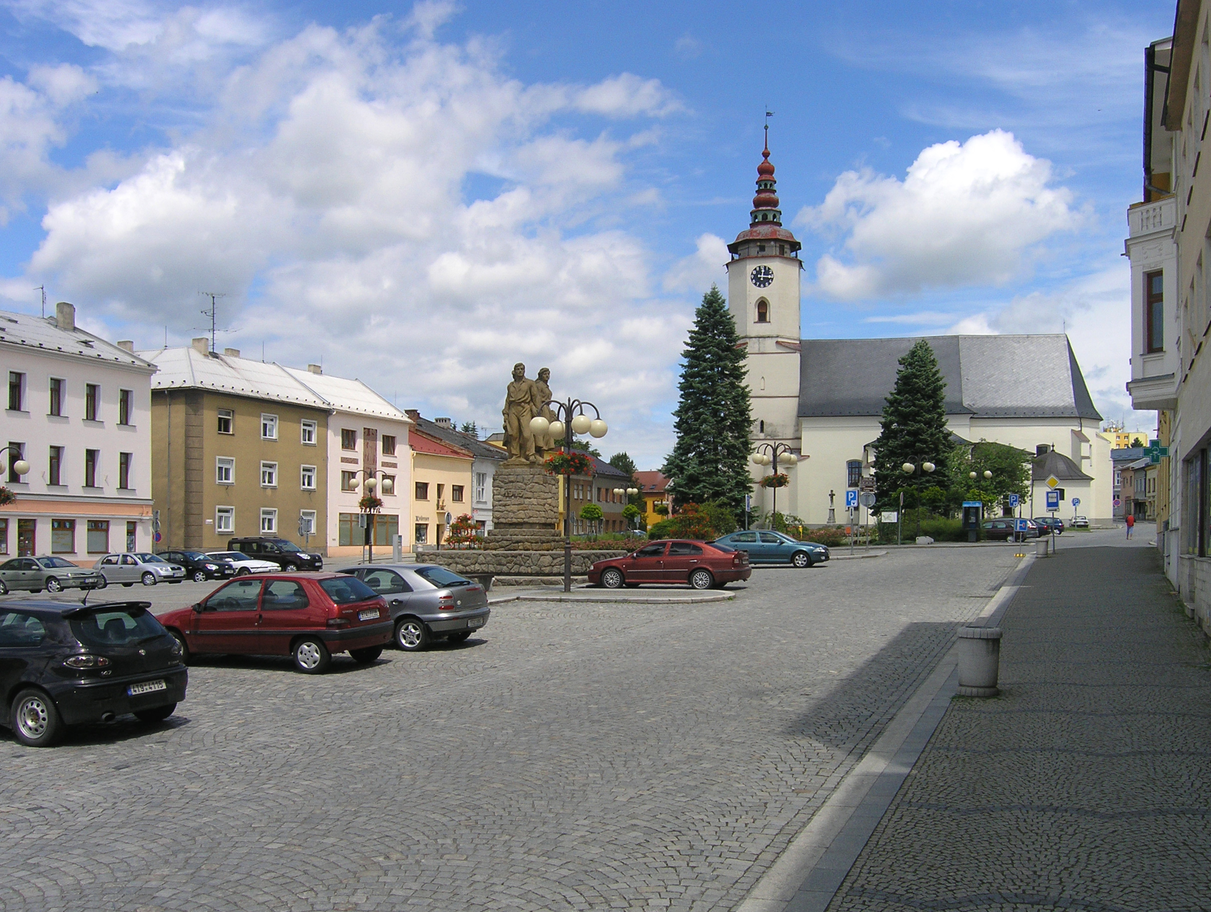 Slezské square in Bílovec, Czech Republic